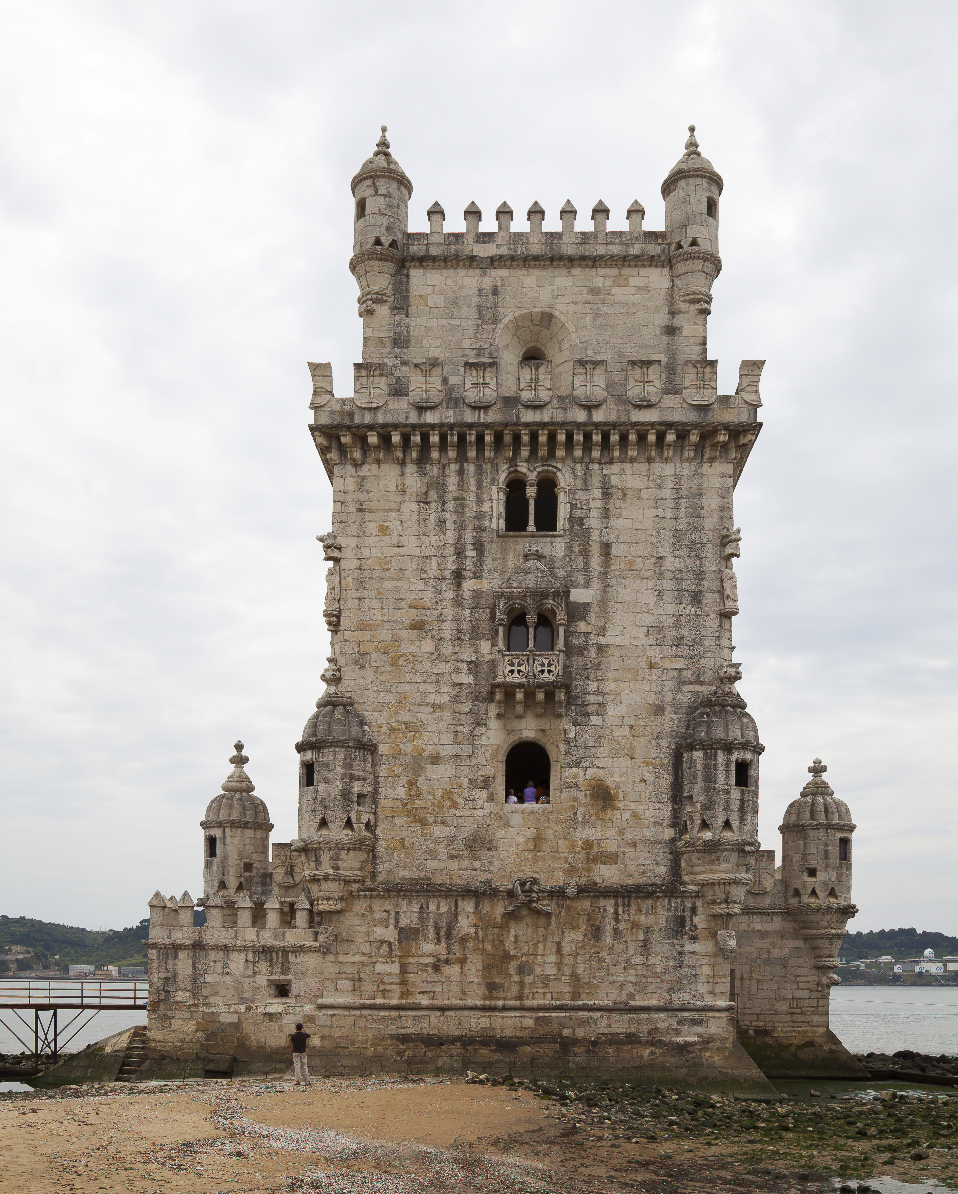 Belém Tower, Lisbon, Portugal